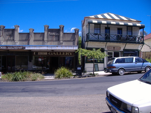 View of some buildings on the main street of Cobargo, New South Wales. The photo was taken on 10/12/2005